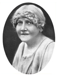 Reproduction of a centenary picture of Marjory Kennedy-Fraser.